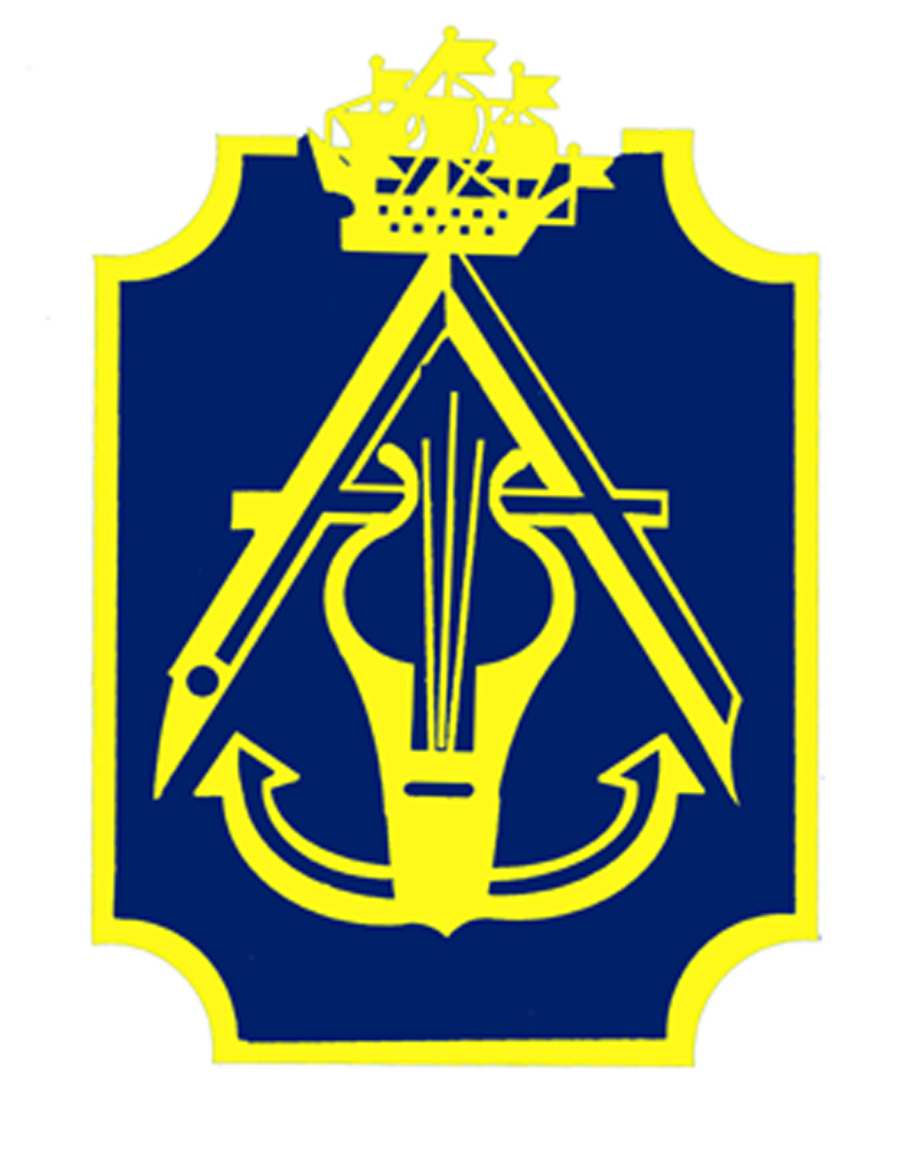 Admiralteysky (St. Peterburg), coat of arms